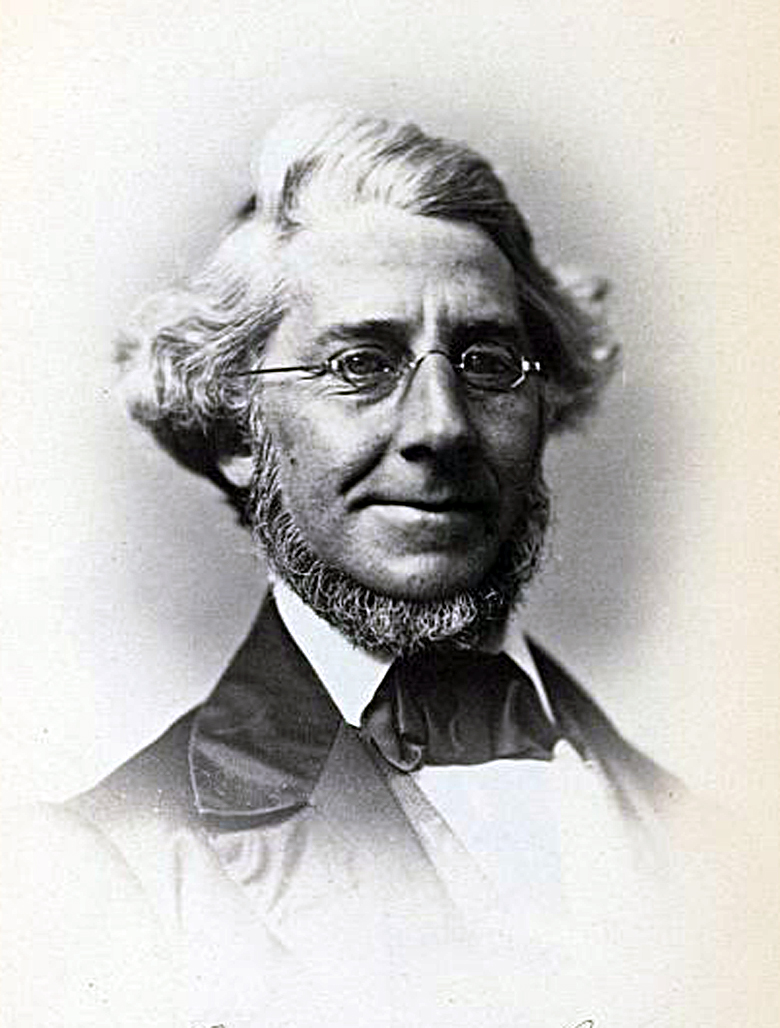 James Landy, US Representative from Pennsylvania This is a retouched picture, which means that it has been digitally altered from its original version. Modifications: Cropped and some other things.